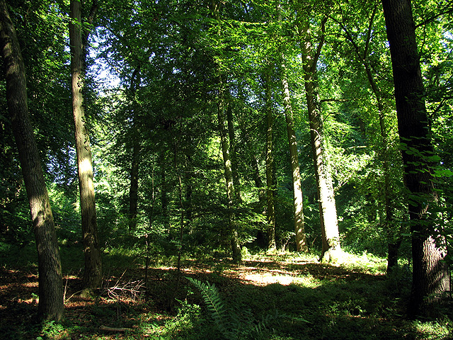 Ashampstead common. This square is largely wooded commonland and farmland.